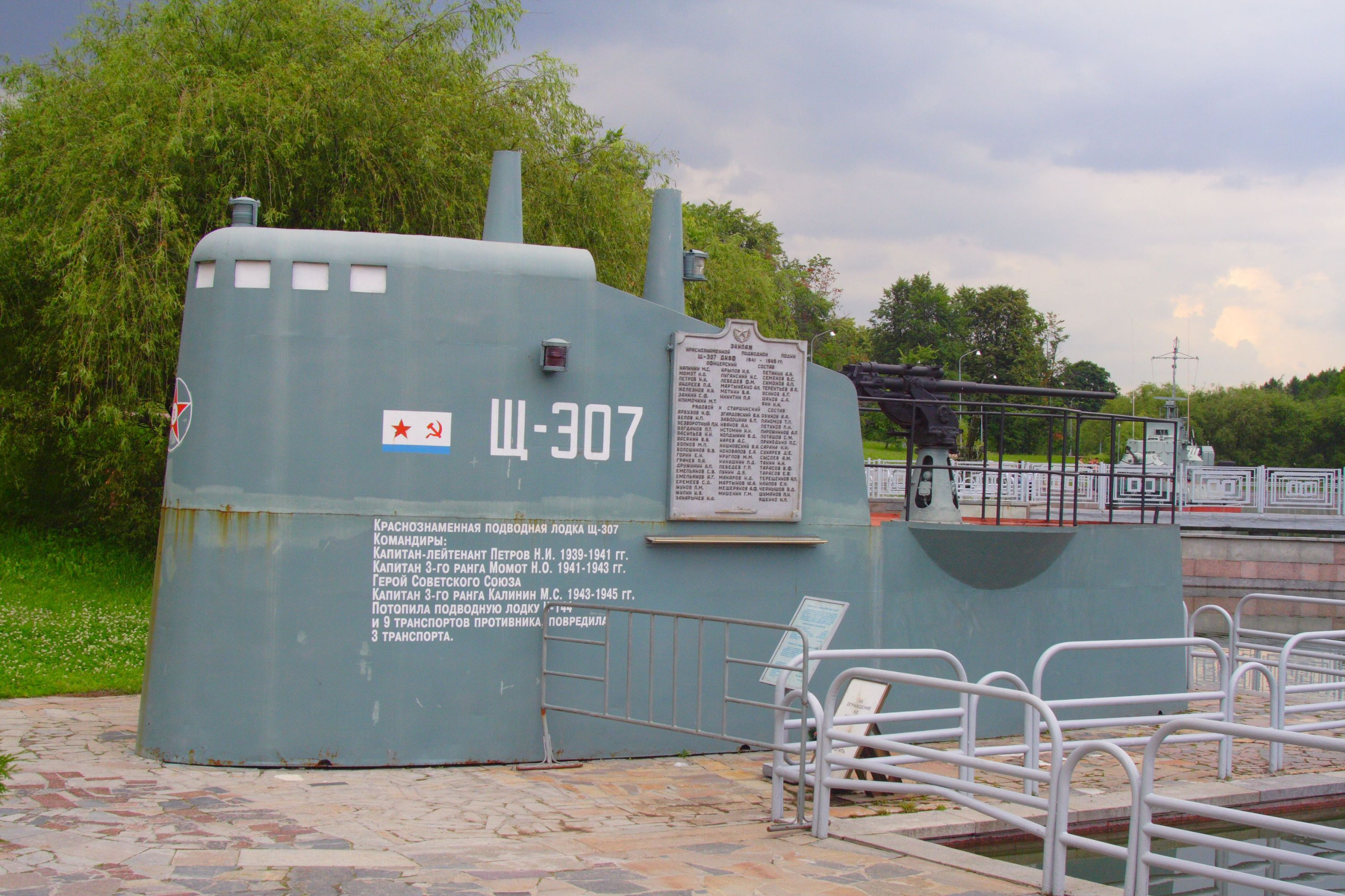 Cabin of a soviet submarine ShCh-307, which exhibits in museum at Poklonnaya Gora, Moscow, Russia